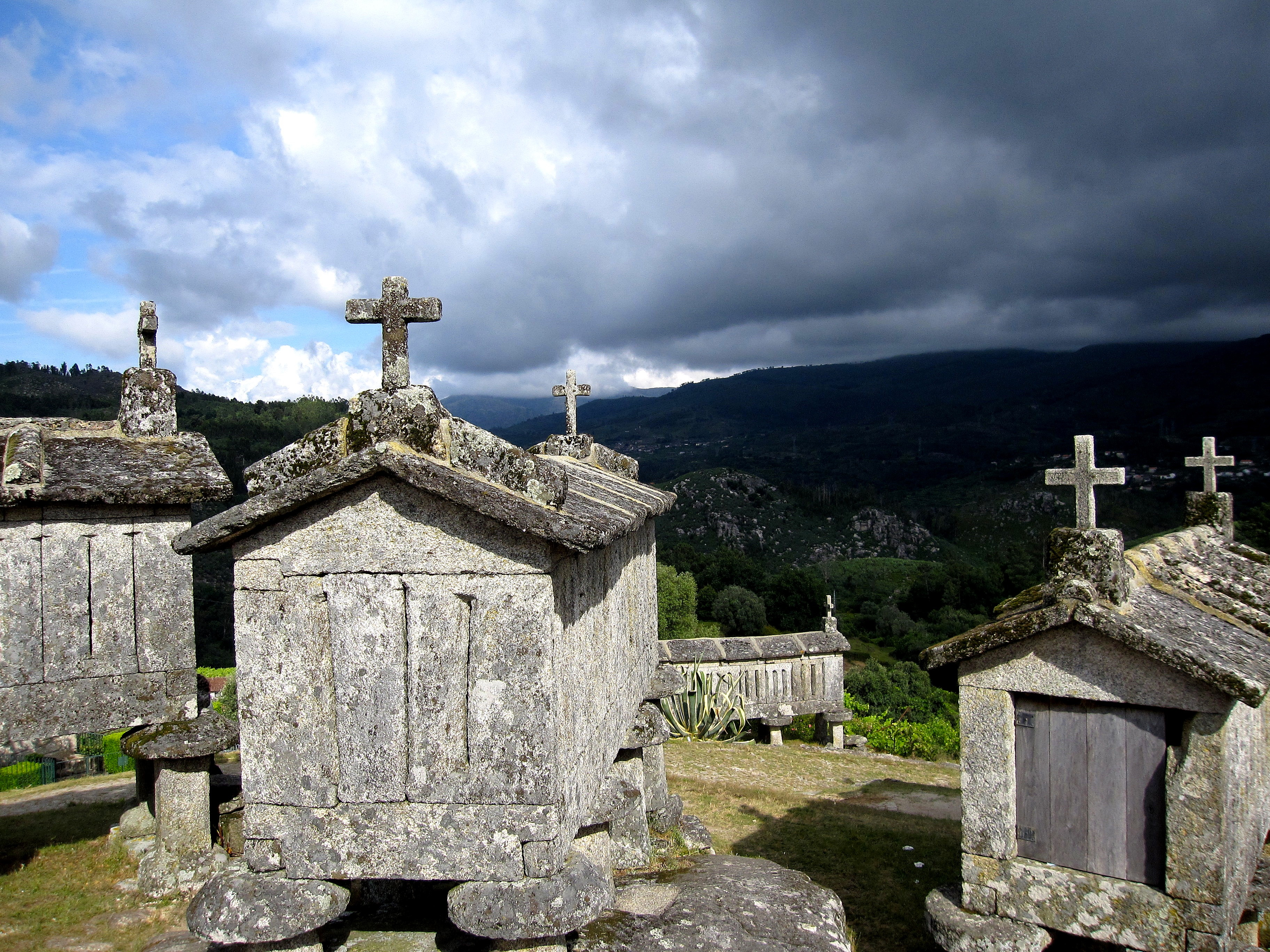 This file was uploaded for Wiki Loves Monuments in Portugal with the unique identifier 74703.